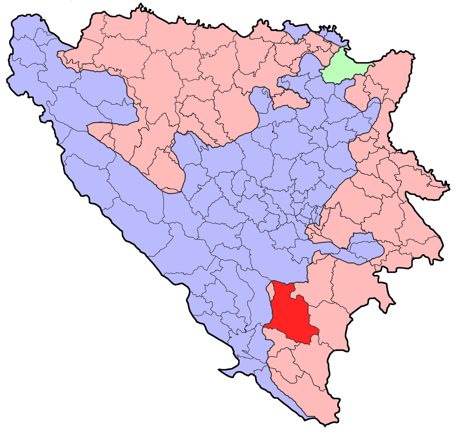 Municipality of Nevesinje in Bosnia and Herzegovina